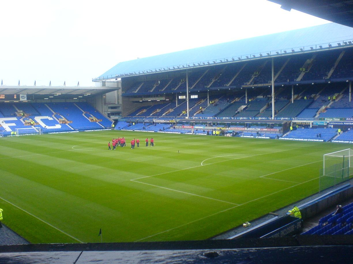 Before or after a match (against Sunderland(?))